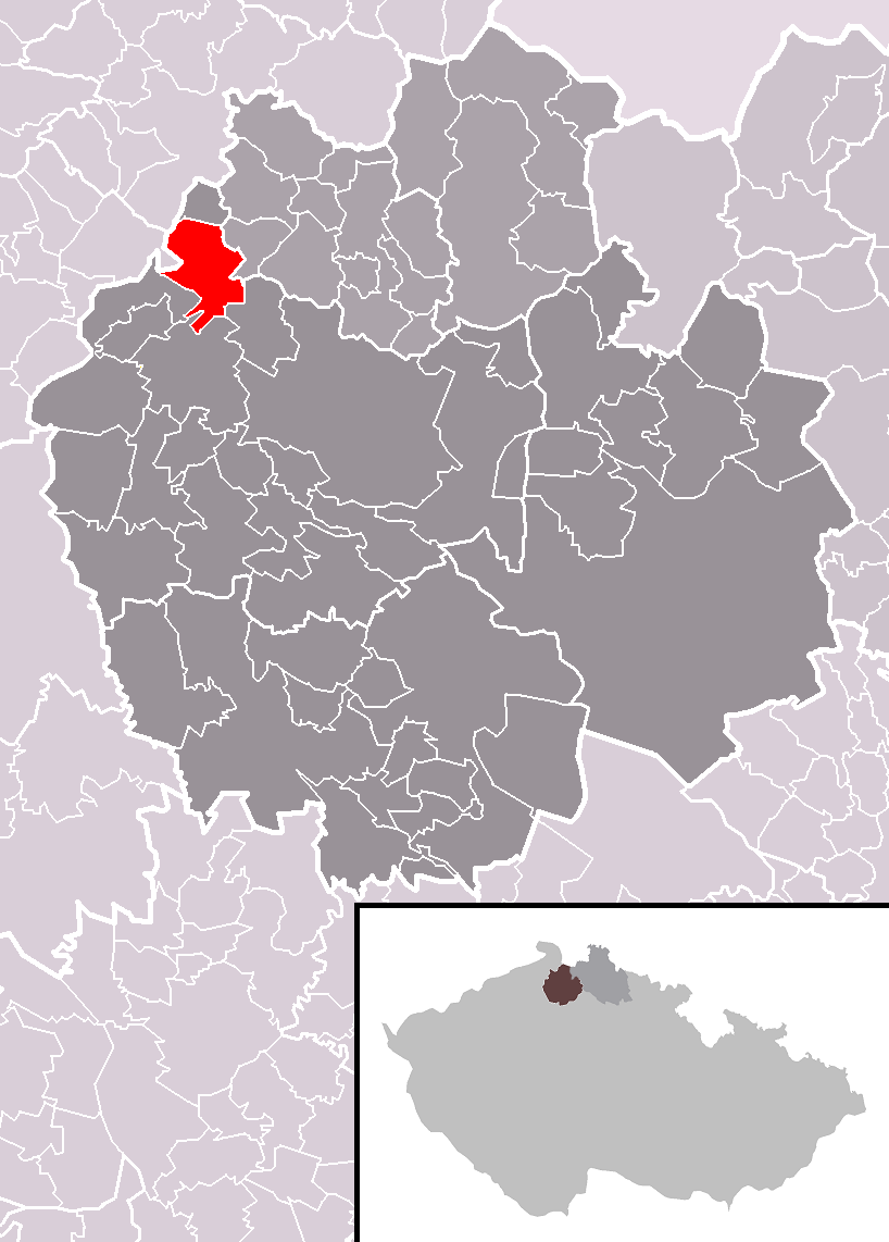 Location of Volfartice municipality within Česká Lípa District and administrative area of Česká Lípa as a Municipality with Extended Competence.